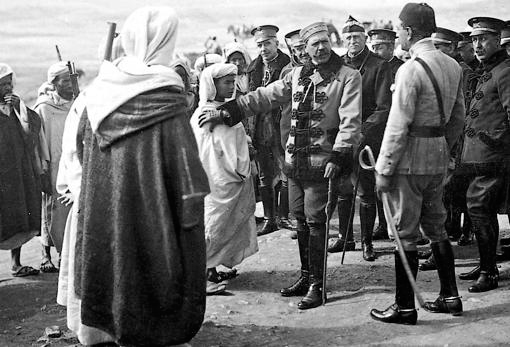 General Manuel Fernández Silvestre offers a Moroccan child protection.